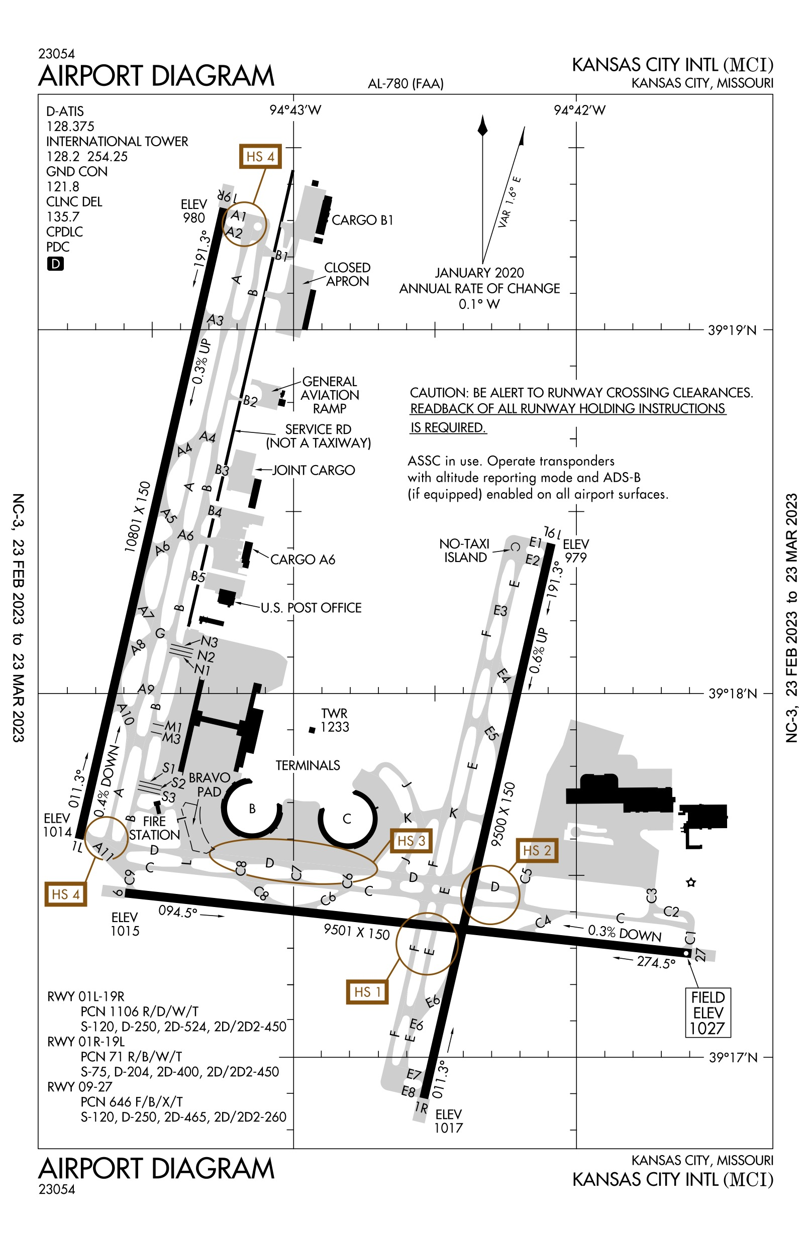 FAA diagram for Kansas City International Airport (MCI) in Kansas City, Missouri, United States. Warning: this diagram contains material which is subject to change, do not use for navigation.